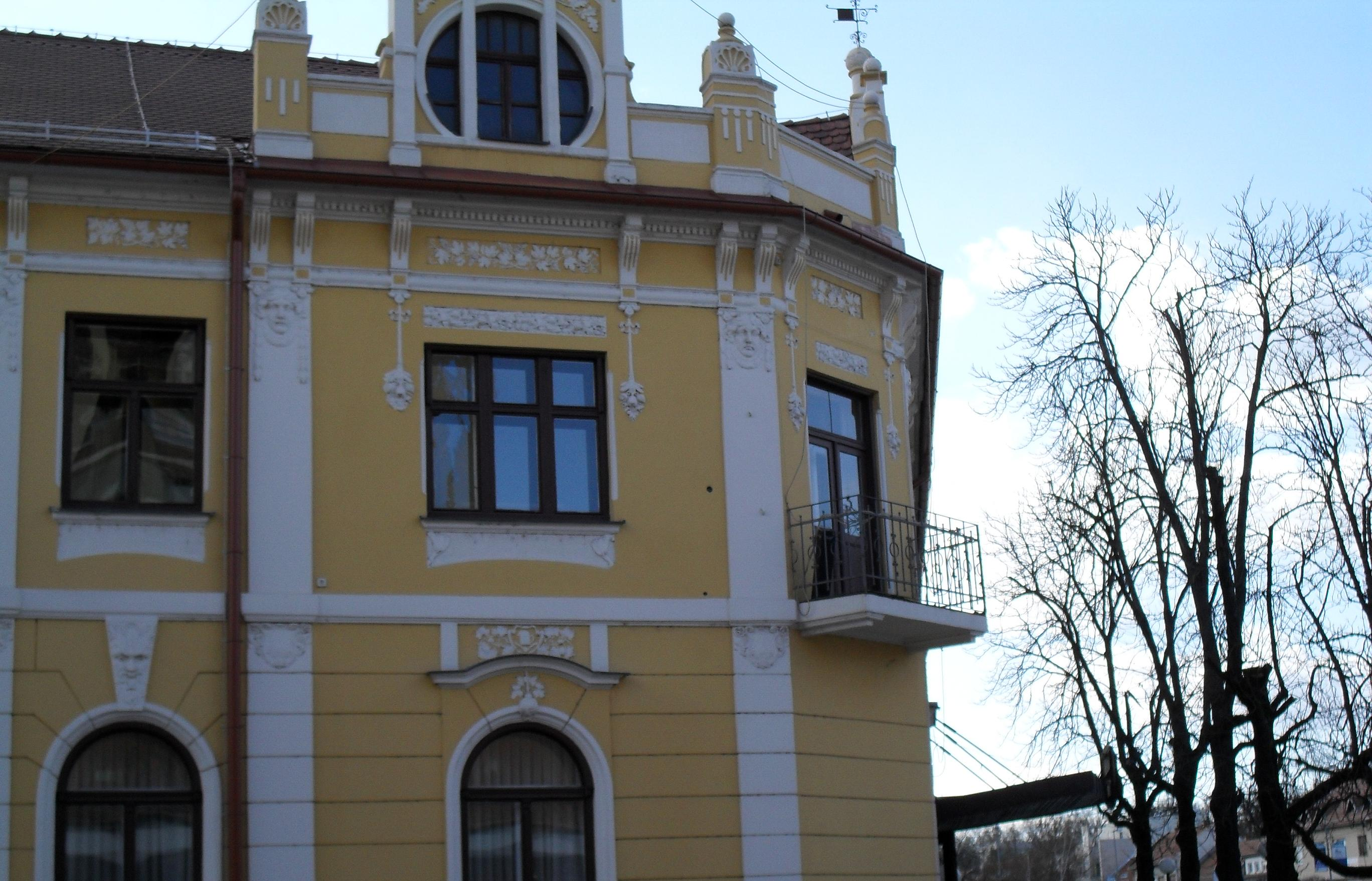 Zvezda Hotel, Victory Square 8. The place where Vilmos Tkálecz proclaimed the Republic of Prekmurje.